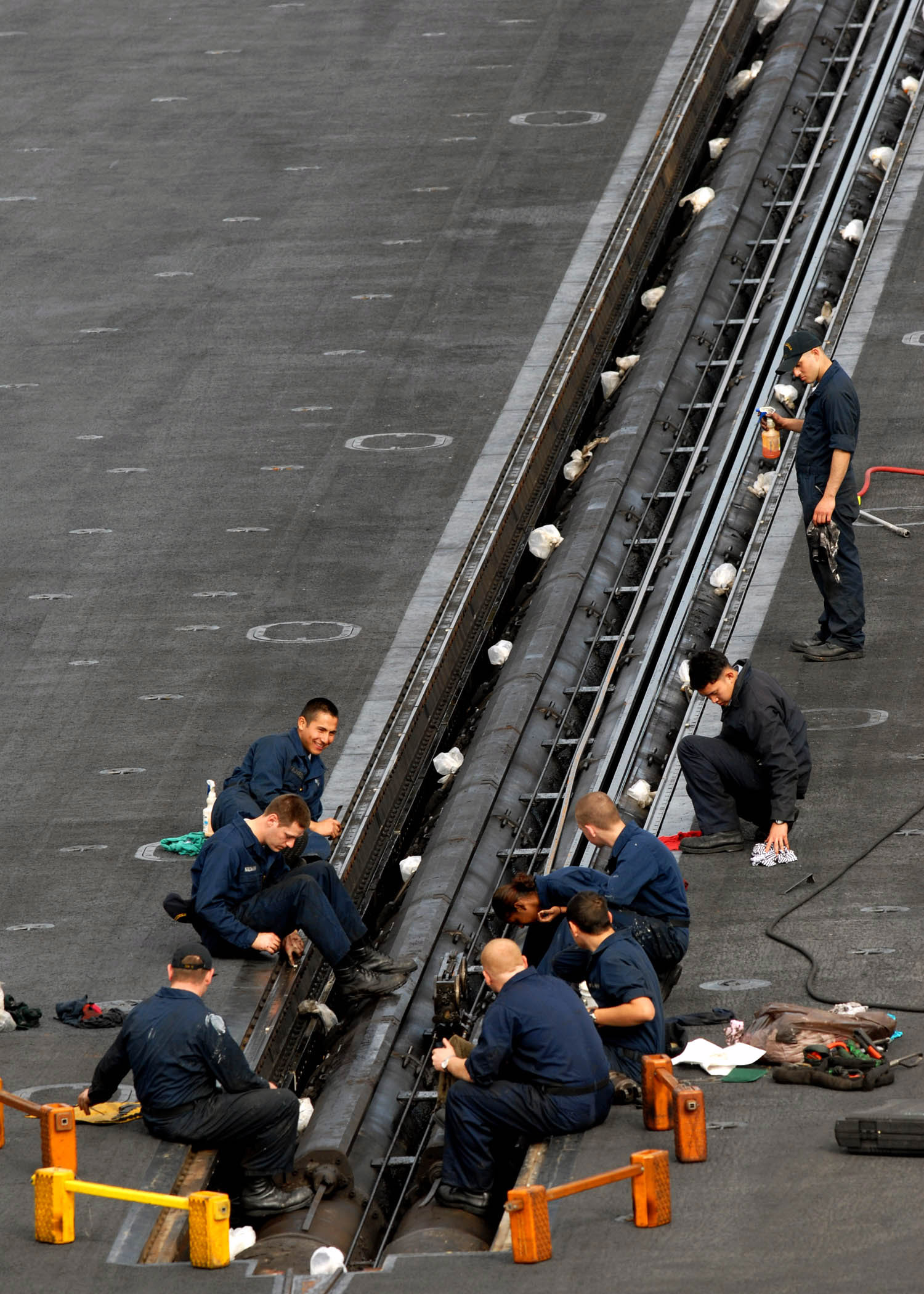 Sailors aboard the Nimitz-class nuclear-powered aircraft carrier USS Abraham Lincoln (CVN 72) begin cleaning one of Lincoln's four catapults on the flight deck.